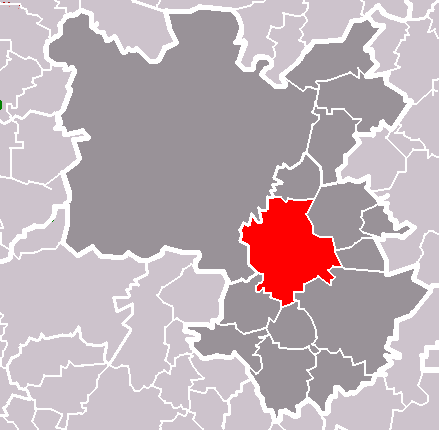 Location of Starý Plzenec town within Plzeň-City District.